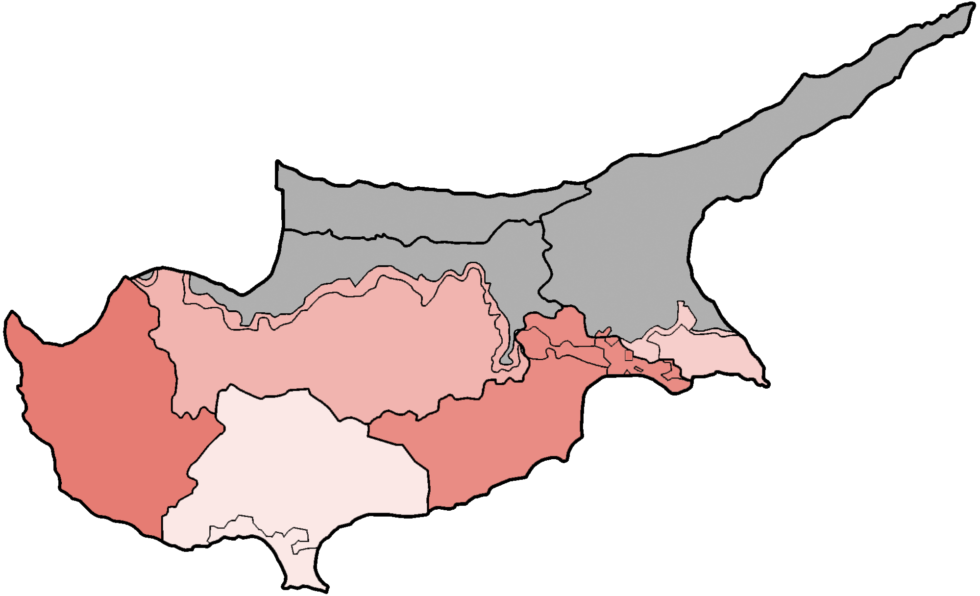 Per capita infection map as of the 7th of May 2020